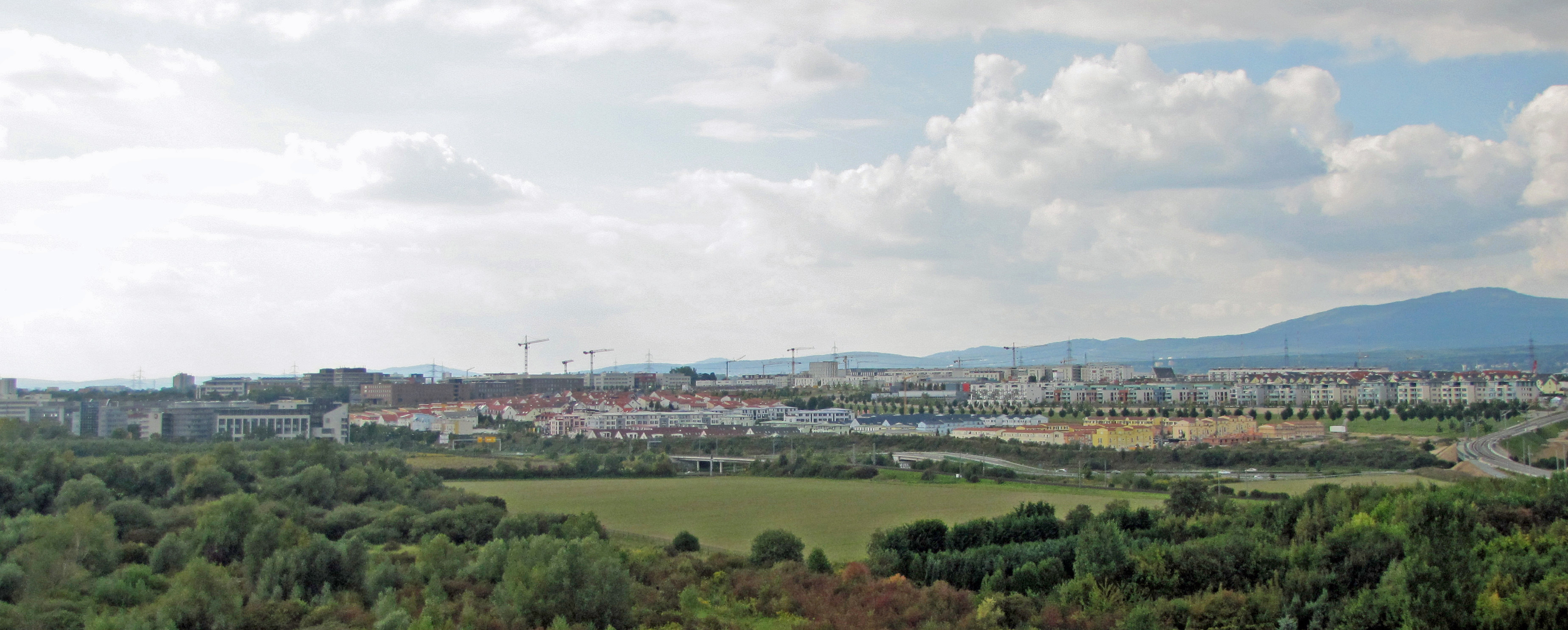 "Riedberg" (part of a borough of Frankfurt am Main), view from east.